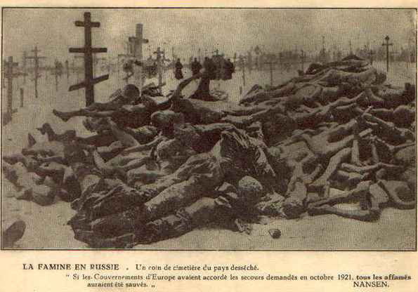 Postcard Published In Brussels To Raise Funds For The Famine Relief Efforts by a Famine Relief Committee. Mr. Nansen was from Norway and was appointed the High Commissioner for the Soviet Famine Relief effort. The image depicts the Russian famine of 1921. The Corner Of The Cemetary In Wasted Country. Buzuluk, winter 1921/22 year.[1] The image has also been used as Holodomor image from Kharkiv 1933.[2]